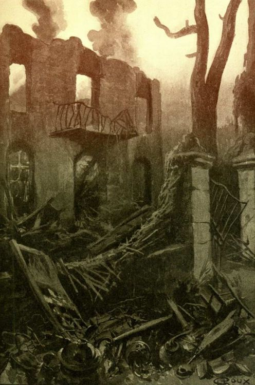 An illustration from Jules Verne's novel "The Secret of William Storitz" (written in 1898, firts published in 1910 after his death with changes made by his son Michel) drawn by George Roux.